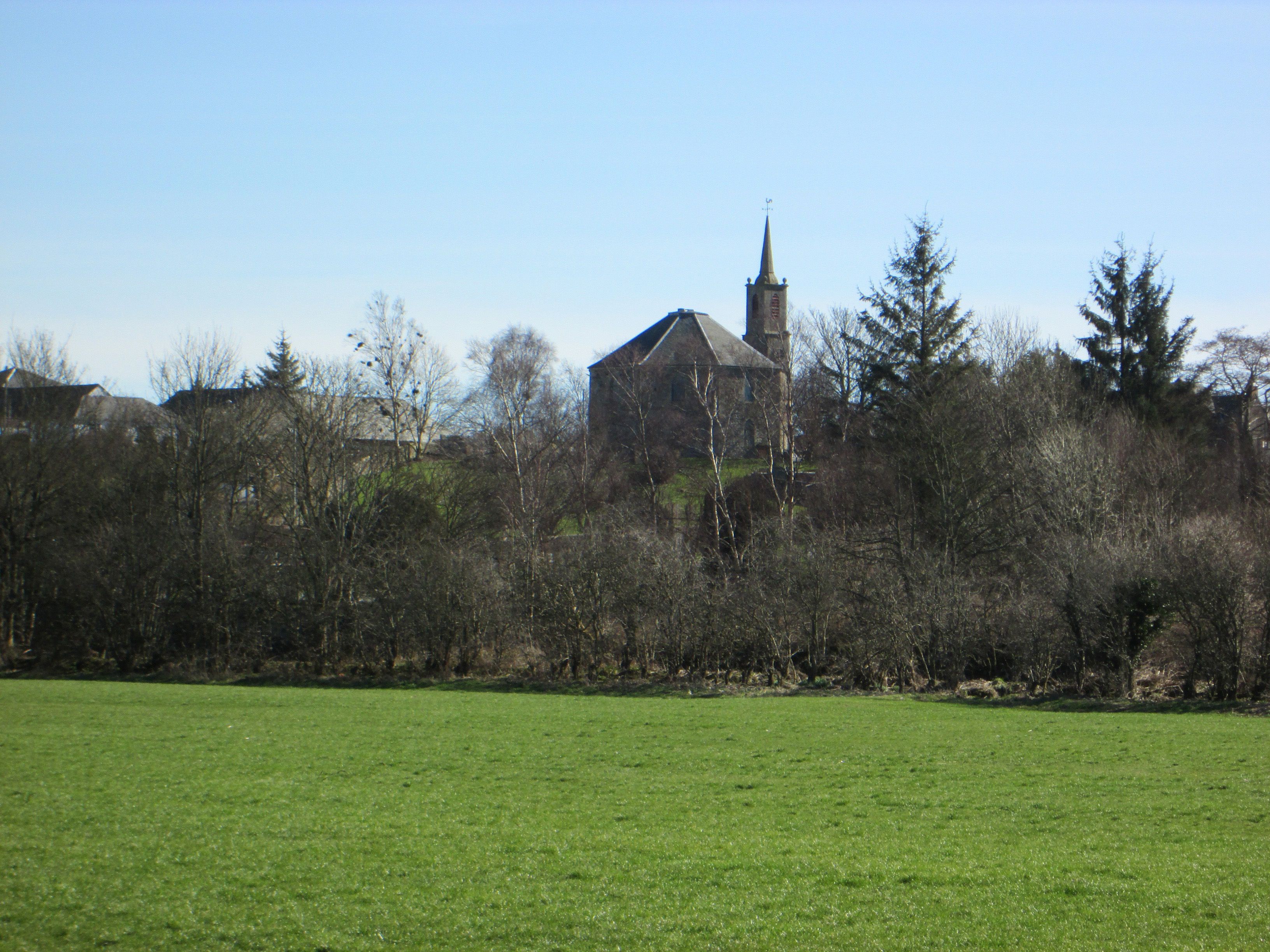 Dreghorn, looking south from National Cycle Route 73 across Annick Valley Park and the Annick Water to the wooded cemetery, with Dreghorn and Springside Parish Church at the high point of the ridge.